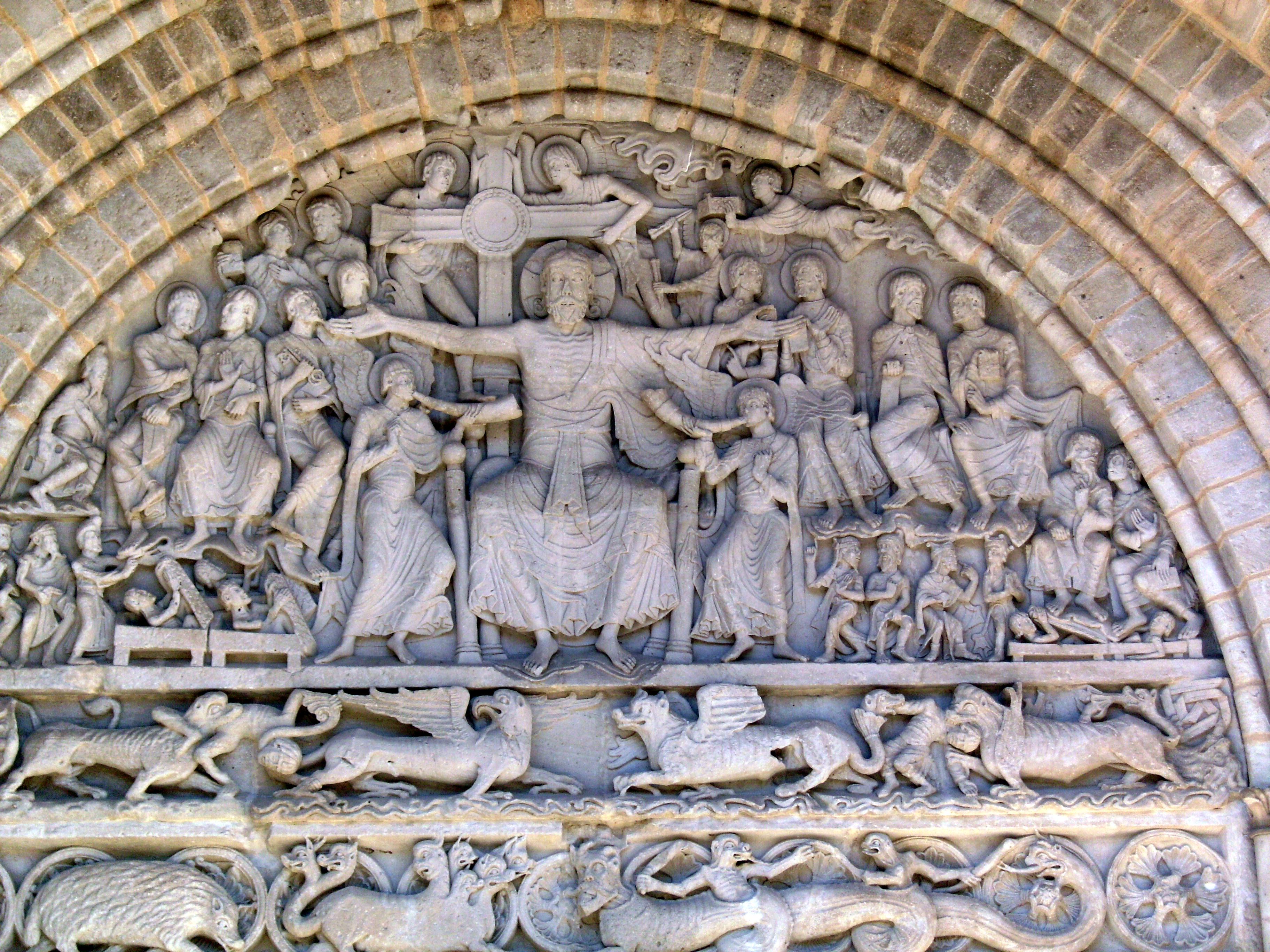 Carving of Return of Christ on tympanum of south portal, abbey church of Beaulieu-sur-Dordogne, limousin, France.